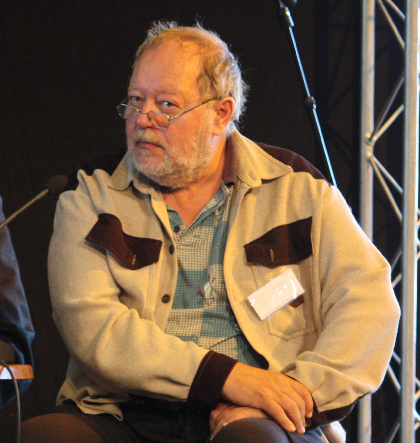 Finnish writer Boris Hurtta (Tarmo Talvio) at the Turku Book Fair 2010.